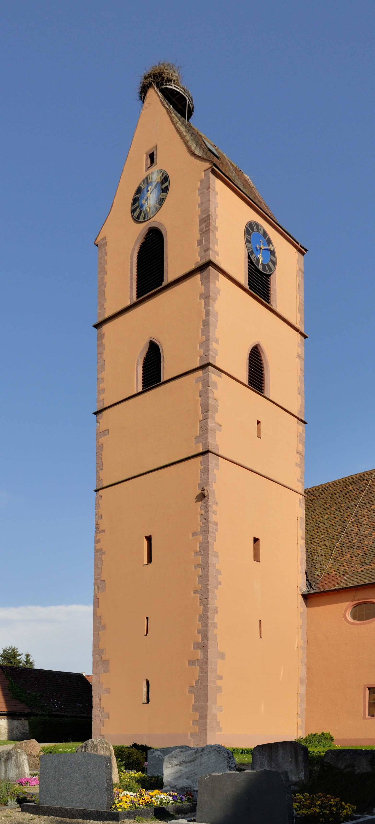 Kirchen: Protestant Church